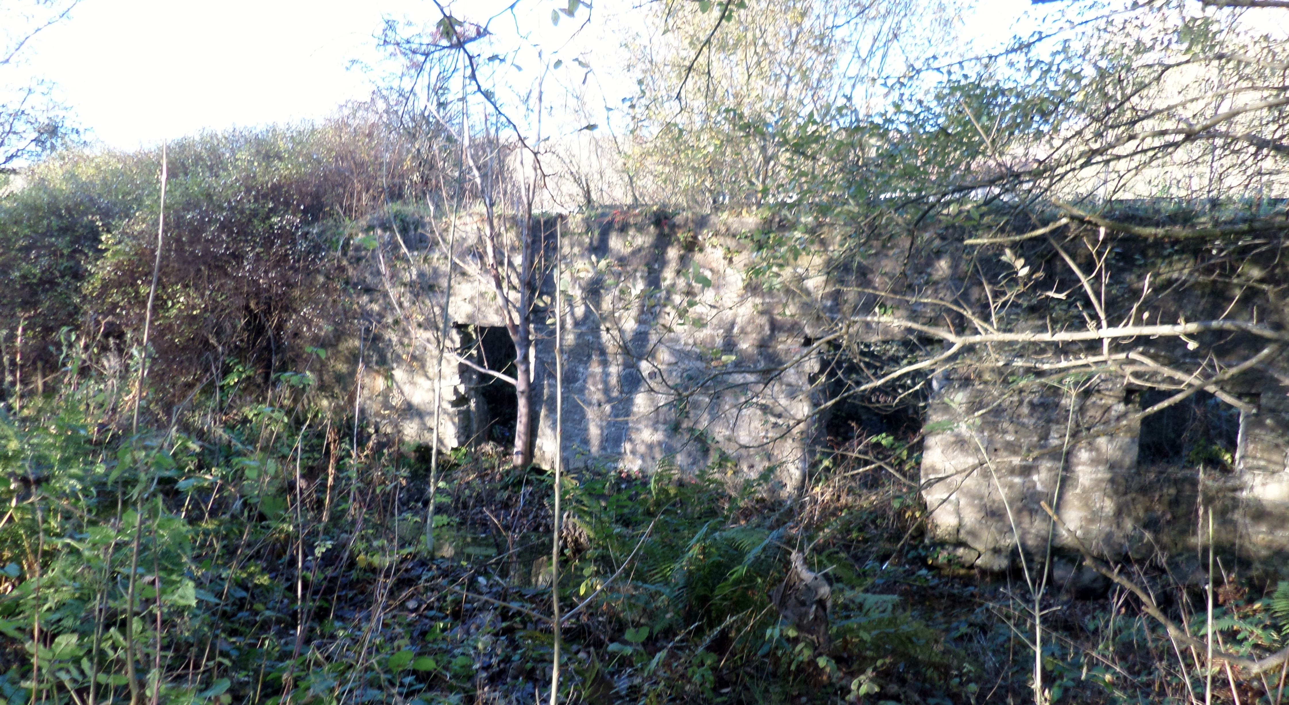 The old stables, Donald's Quay and Ferrydyke, Old Kilpatrick, Scotland. Used for the Forth & Clyde Canal barges and carts unloading coal.